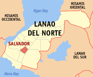 Map of the Lanao del Norte showing the location of Salvador